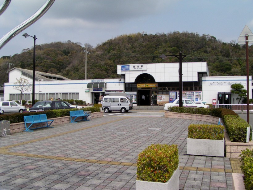 West Japan Railway Company Kisei Main Line, Gobō Station.